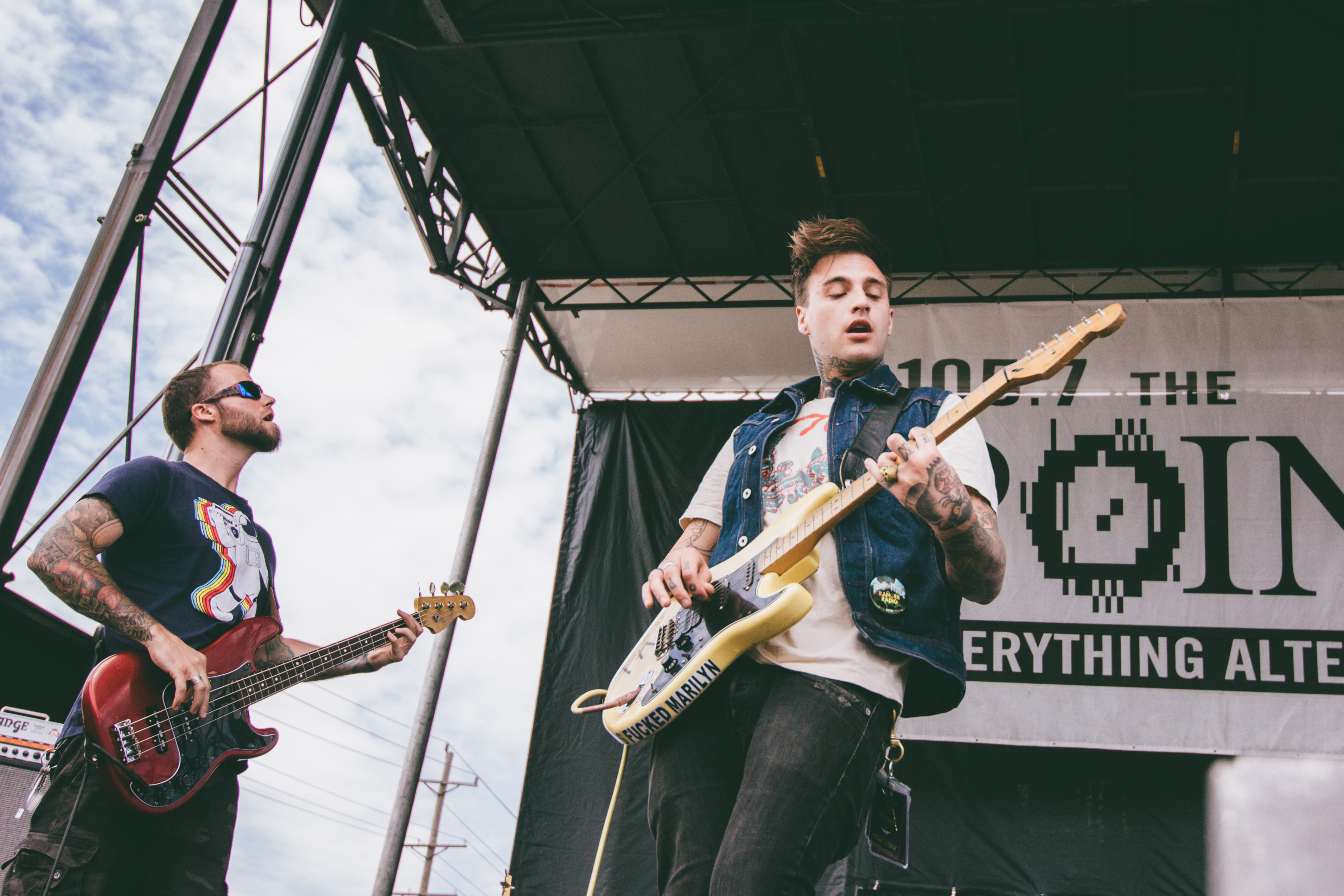 Highly_Suspect-2333